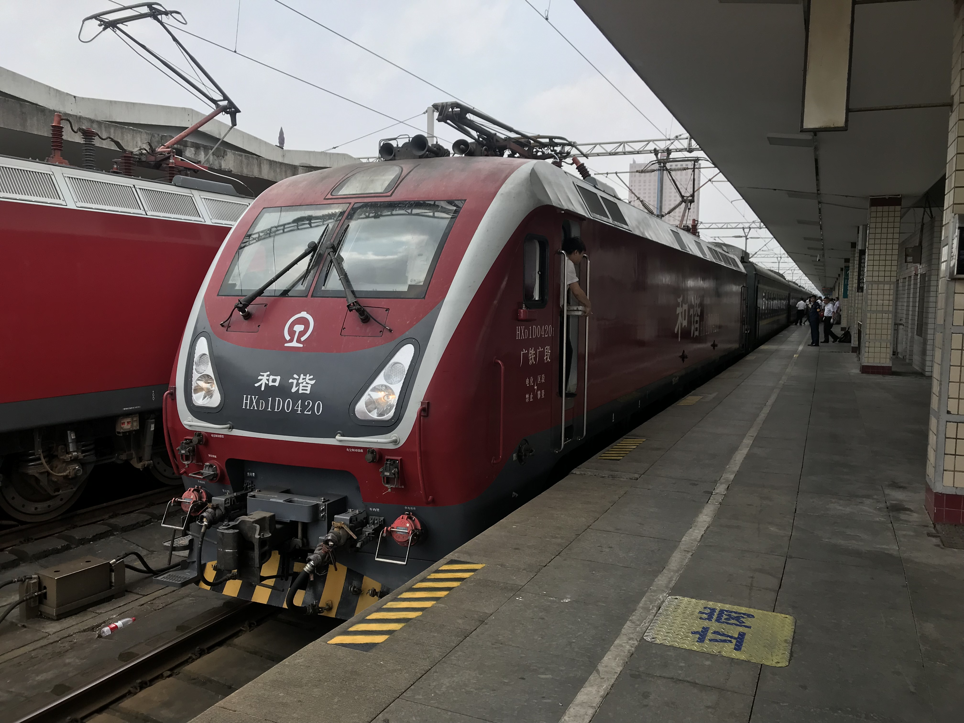 It is very weird that this loco is based in Guangzhou...